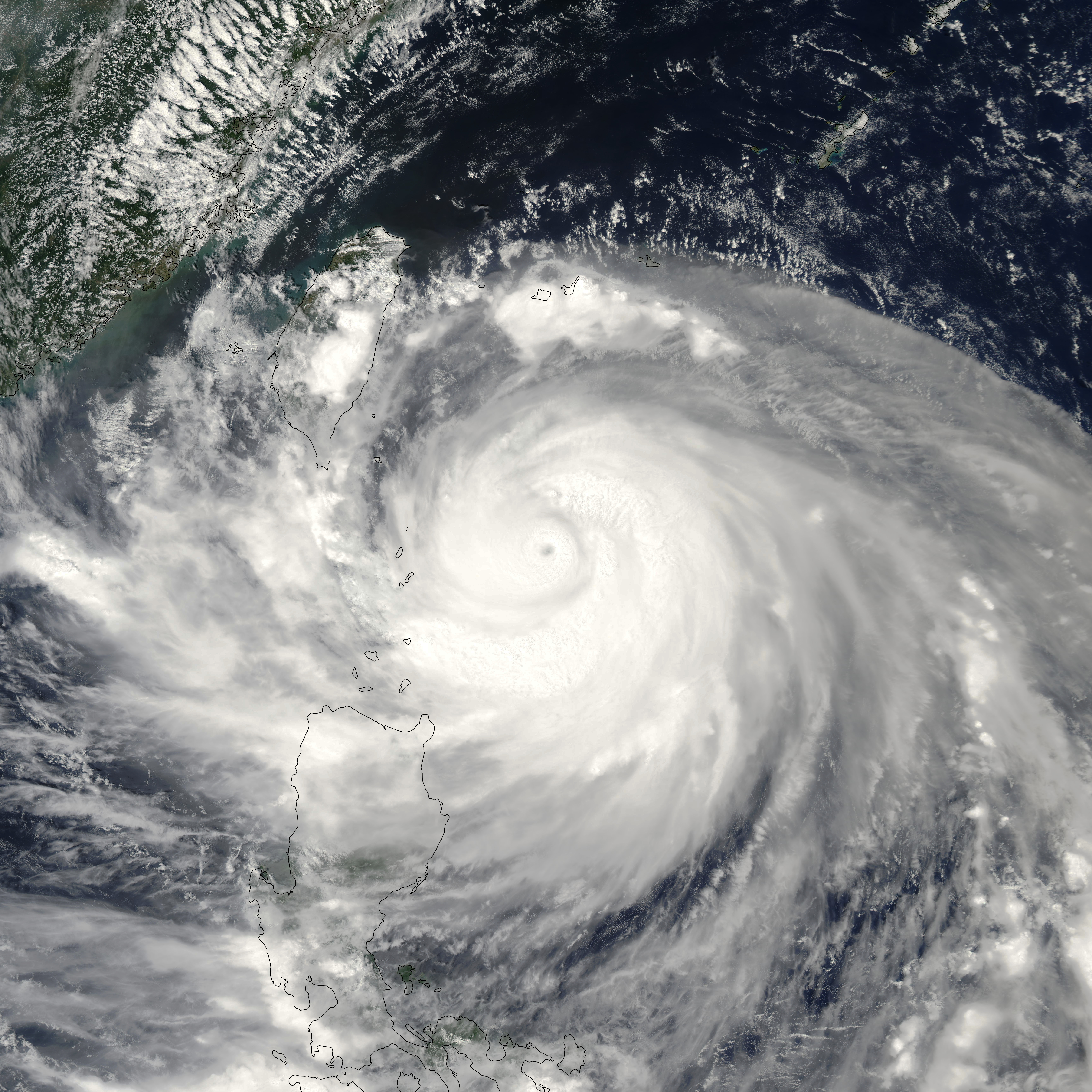 Typhoon Dujuan nearing peak intensity on 1 September 2003 at 05:13 UTC with winds estimated by the Joint Typhoon Warning Center at 120 knots.